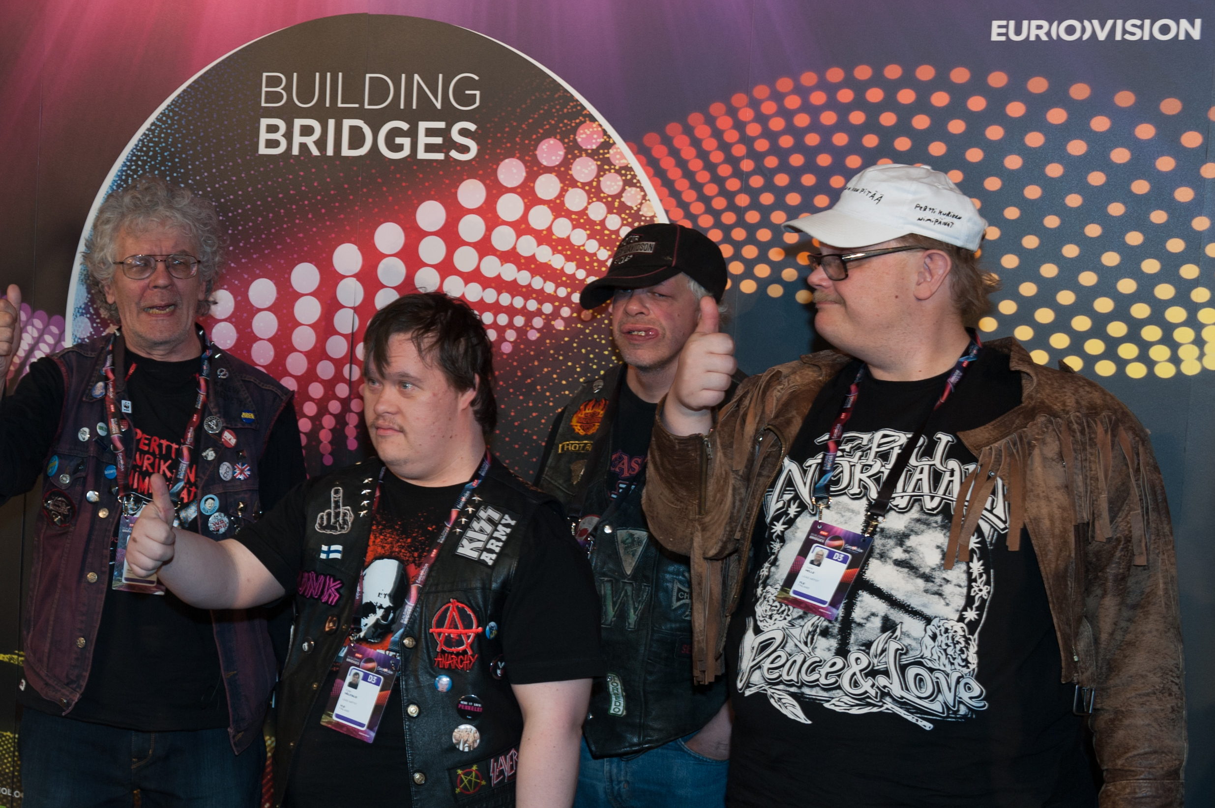 Eurovision Song Contest Vienna 2015: Pertti Kurikan Nimipäivät